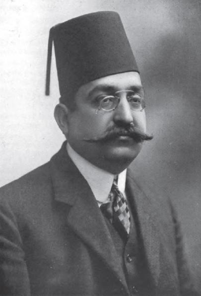 Mohammed Farid